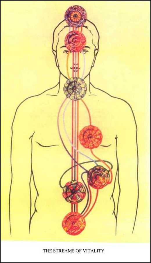 The streams of vitality